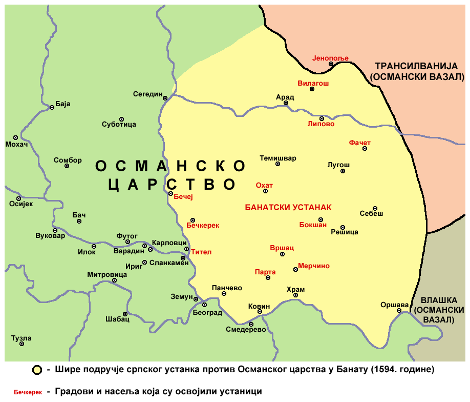 Map of Serb anti-Ottoman uprising in Banat in 1594.